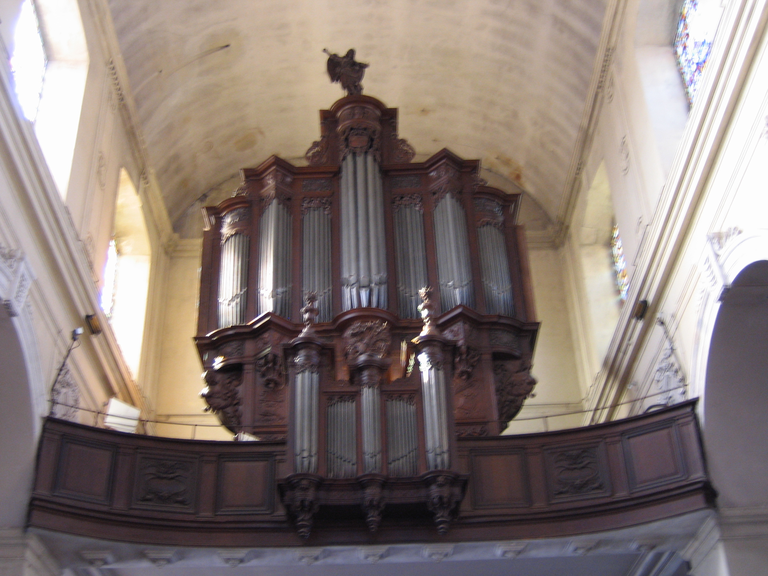 Organ Bolbec